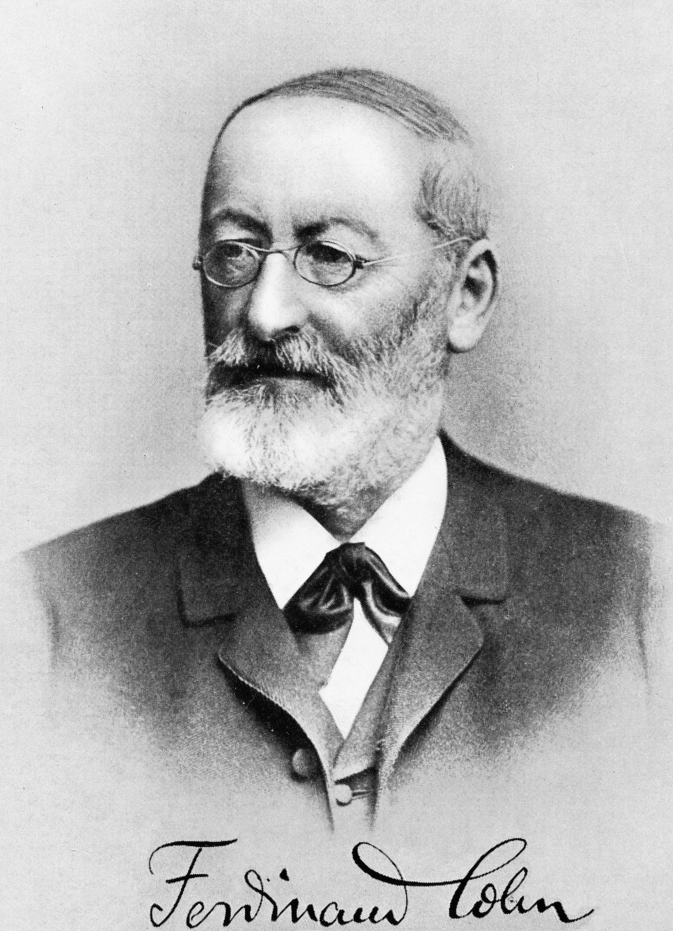 Portrait of Ferdinand Julius Cohn, vignetted head and shoulders, autographed Ferdinand Cohn. Bulletin of the Institute of History of Medicine Published: Johns Hopkins Press, Baltimore 1939, Volume VII, Facing Page 49, Figure 1